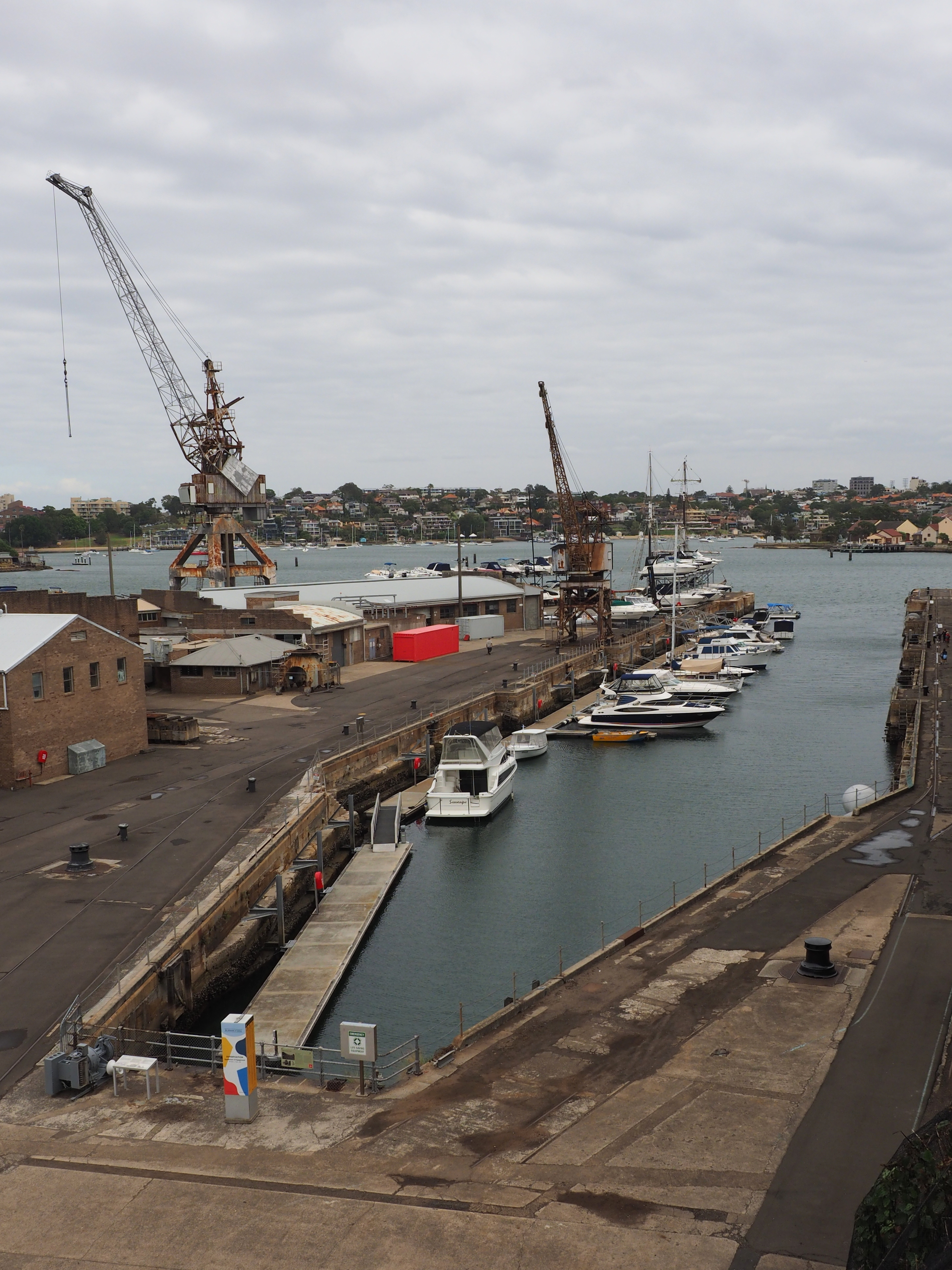 The Sutherland Dock at Cockatoo Island in April 2018